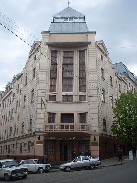 Foto of Palace "Akademichnyi" Chernivtsy, Ukraine